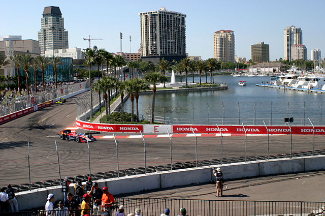 Bayshore Drive, aka "Turn 10", during the Honda Grand Prix of St. Petersburg. Photo by Ronnie Boone, April 2, 2006.